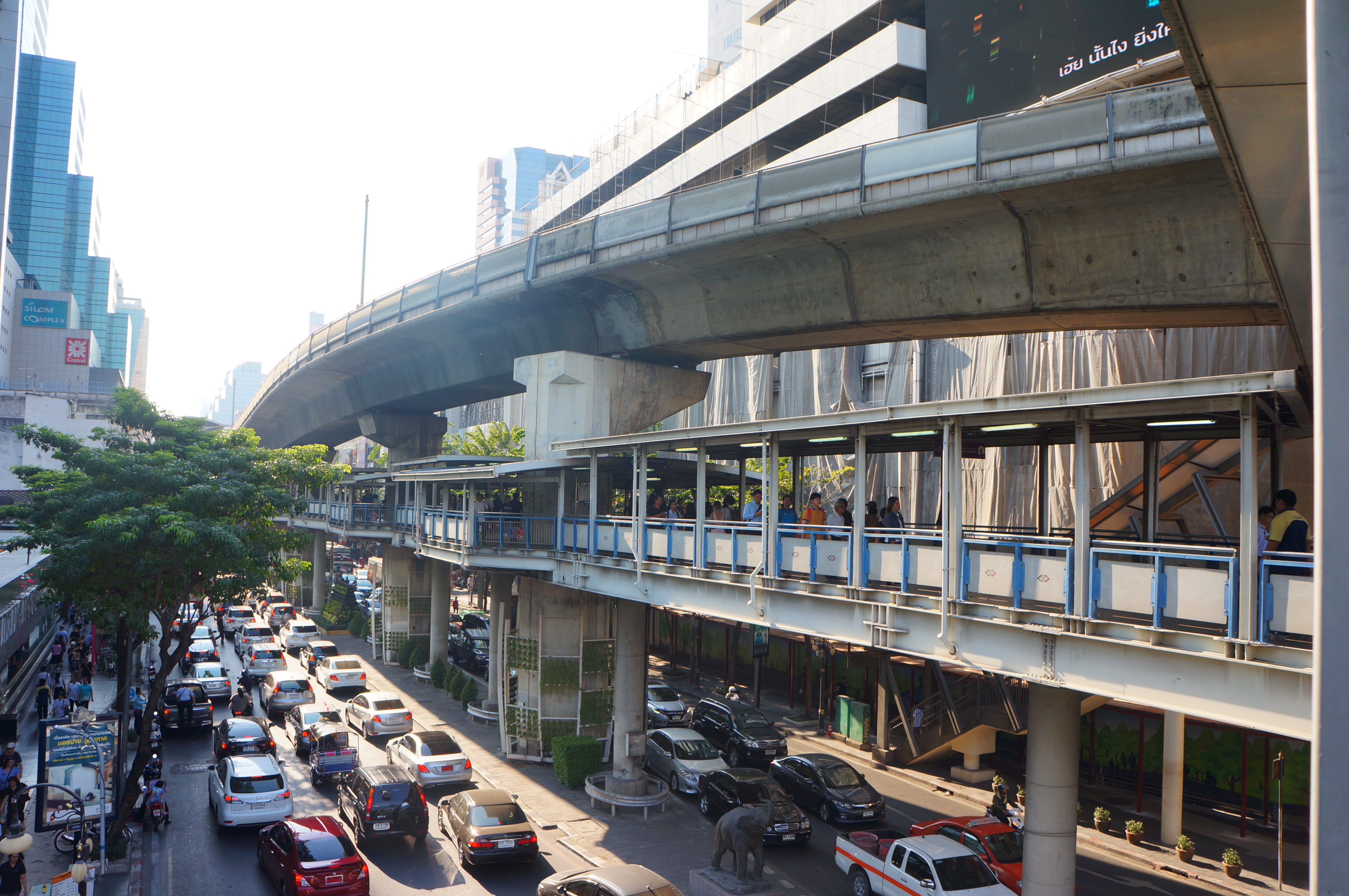 201701 Si Lom–Sala Daeng Flyover. MRT and BTS are two different systems